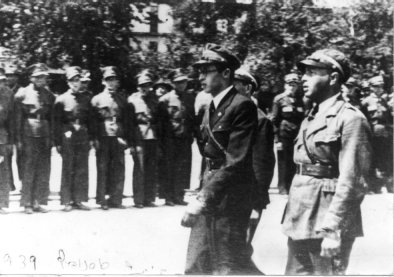 Menachem Begin Poland, reviews an Beitar lineup. Next to Begin is Moshe (Munya) Cohen